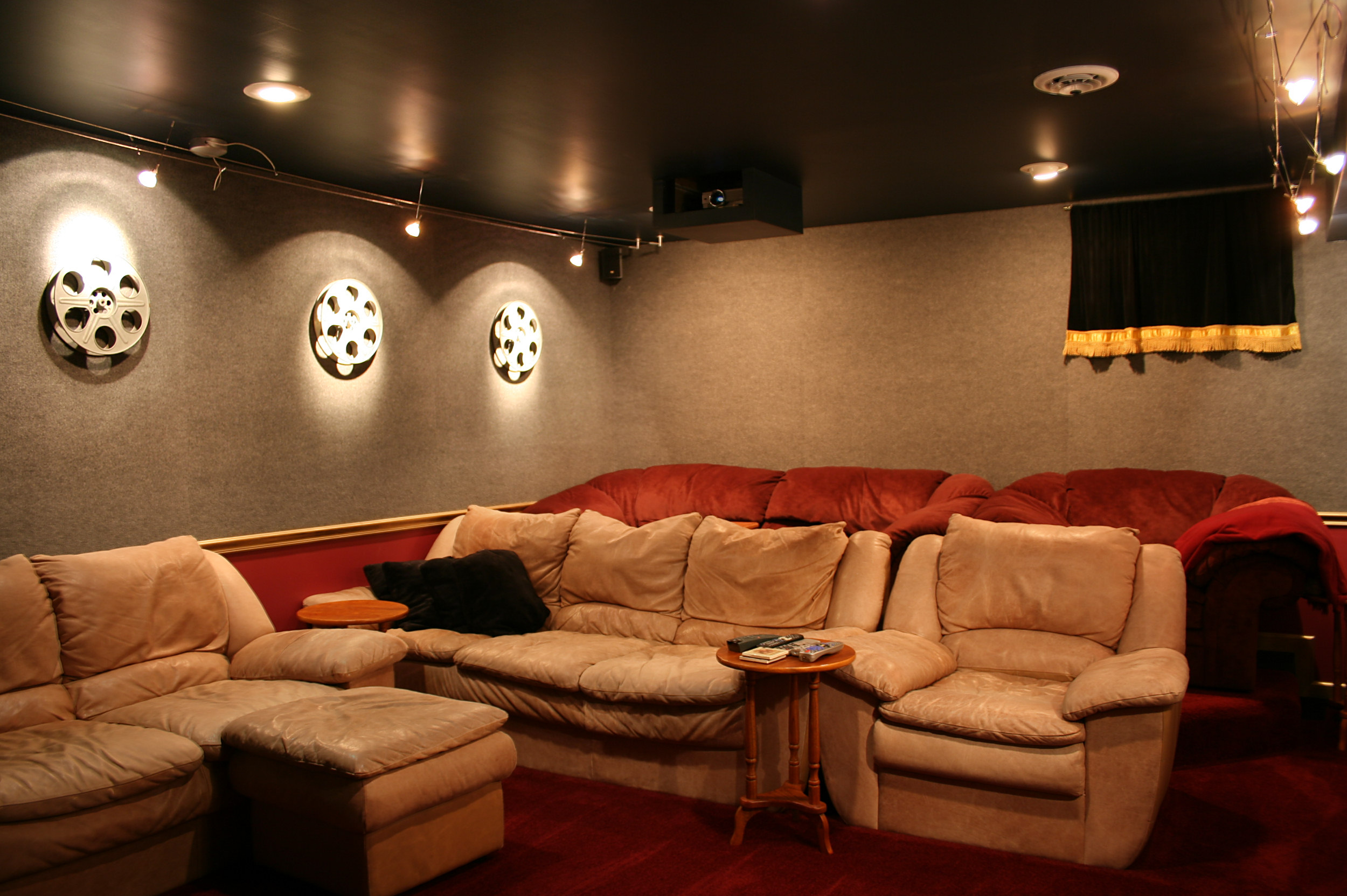 Home theater with ceiling-mounted video projector. Photo shot by Derek Jensen (Tysto), 2006-January-19 Other photos of this room